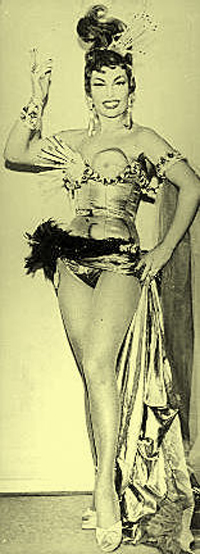 Git Gay (1921-2007), Swedish revue actress, singer. Image of the press of 1960.